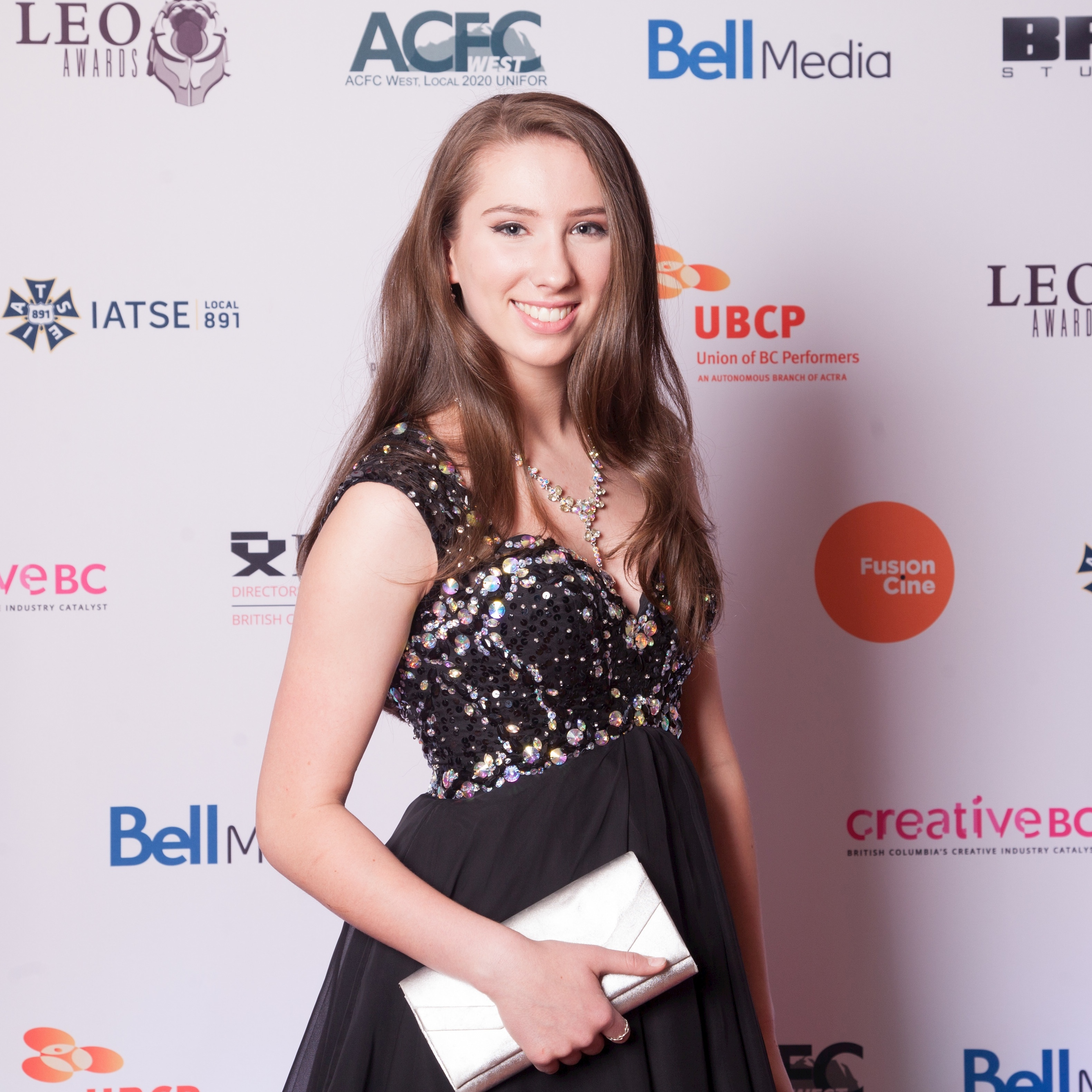 Michelle Creber at the Leo Awards (Vancouver, BC, 2015)